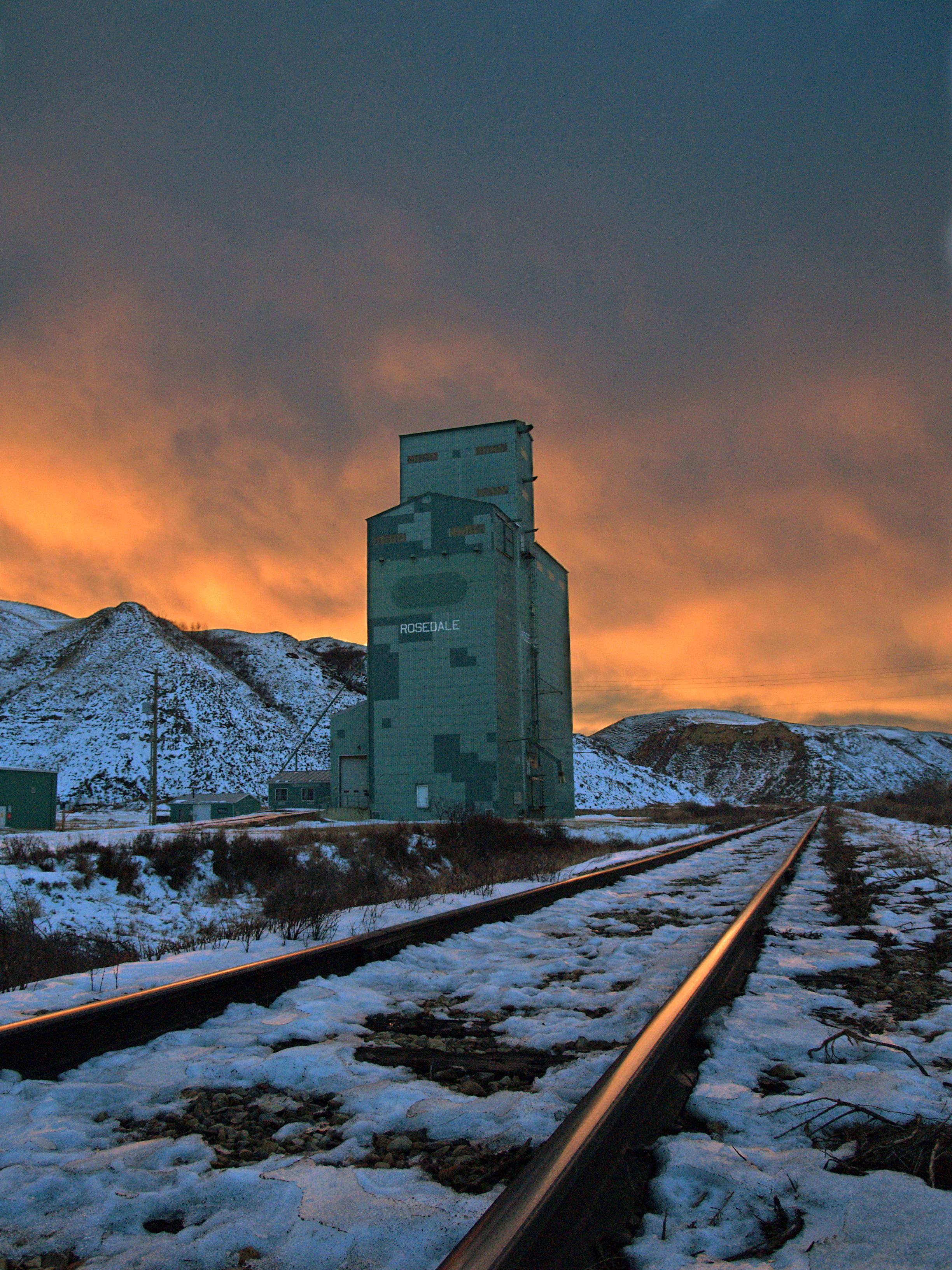 Grain elevator and railroad tracks in Rosedale, Alberta at sunset.